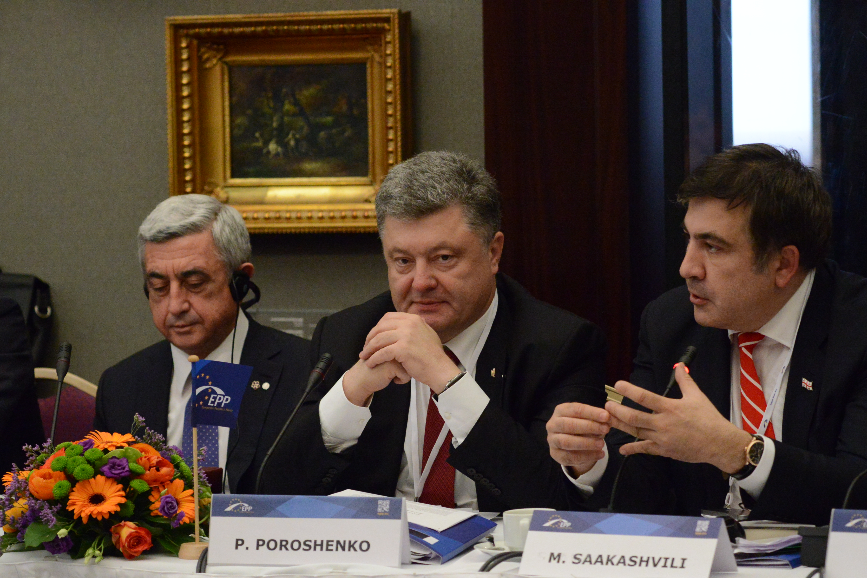 EPP EaP Leaders' Meeting - 21 May